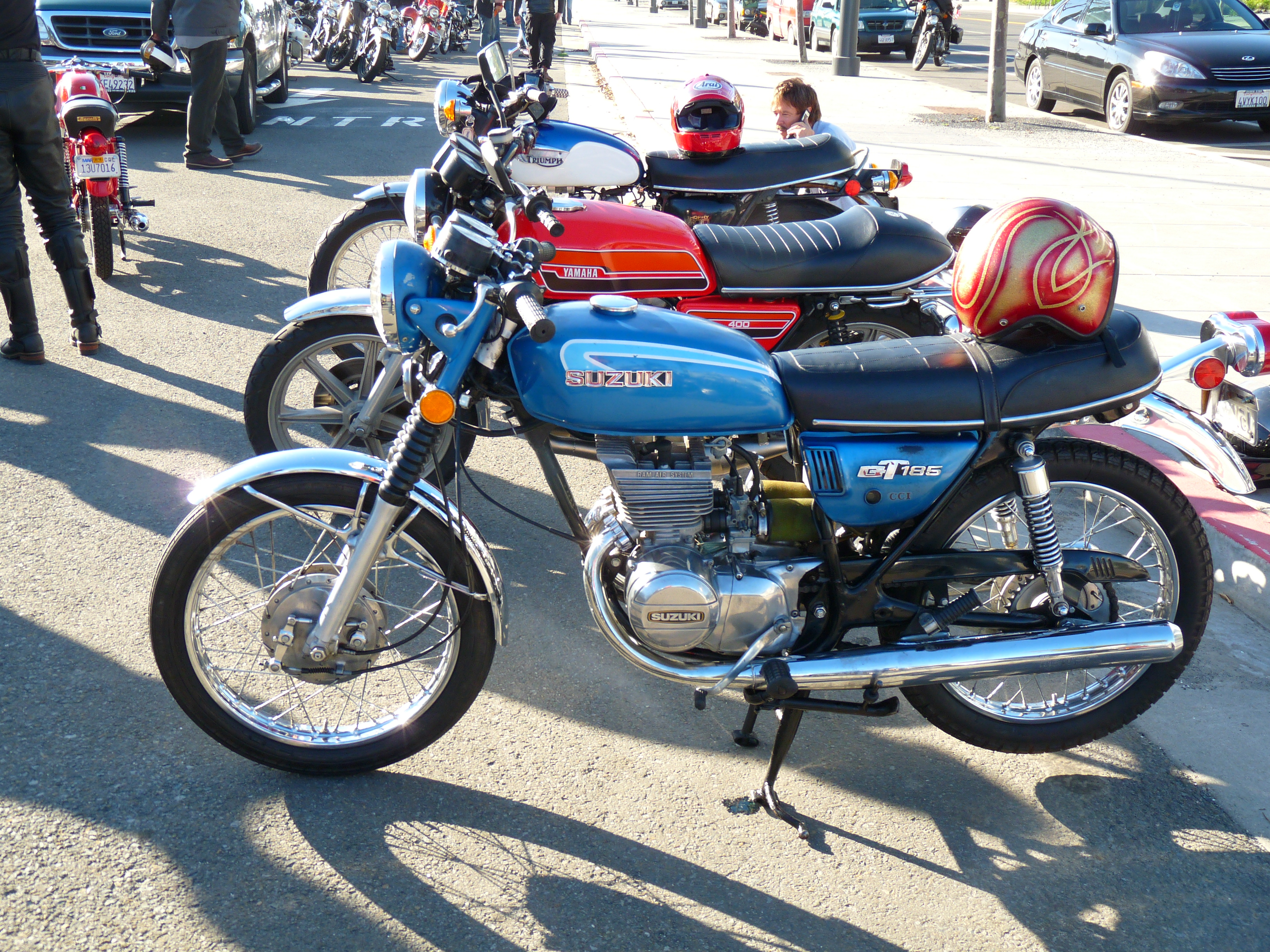 Suzuki GT 185